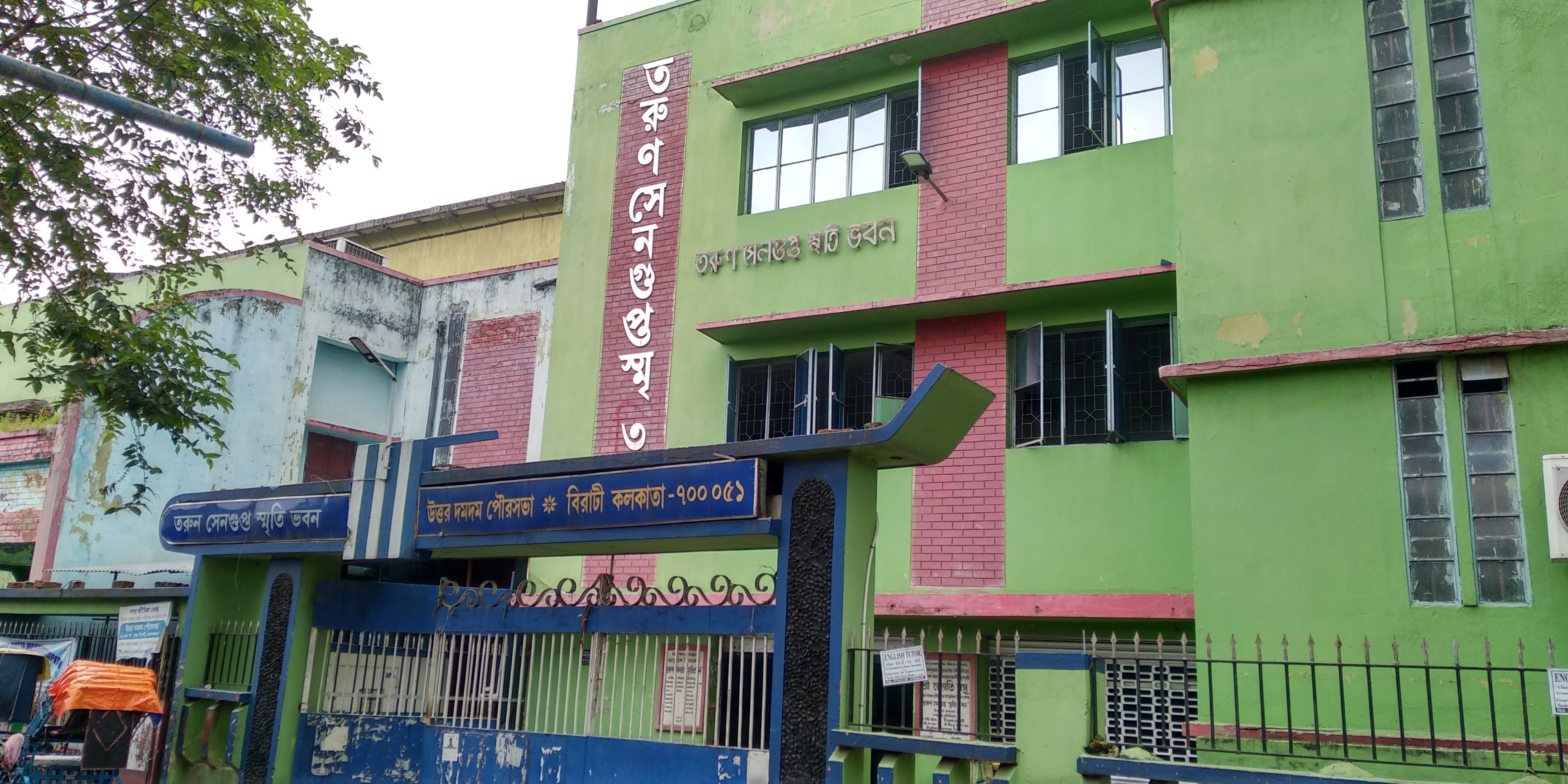 Tarun Sengupta Smriti Bhawan (তরুণ সেনগুপ্ত স্মৃতি ভবন) is the only auditorium in Birati. Situated near the Birati station ticket counter.